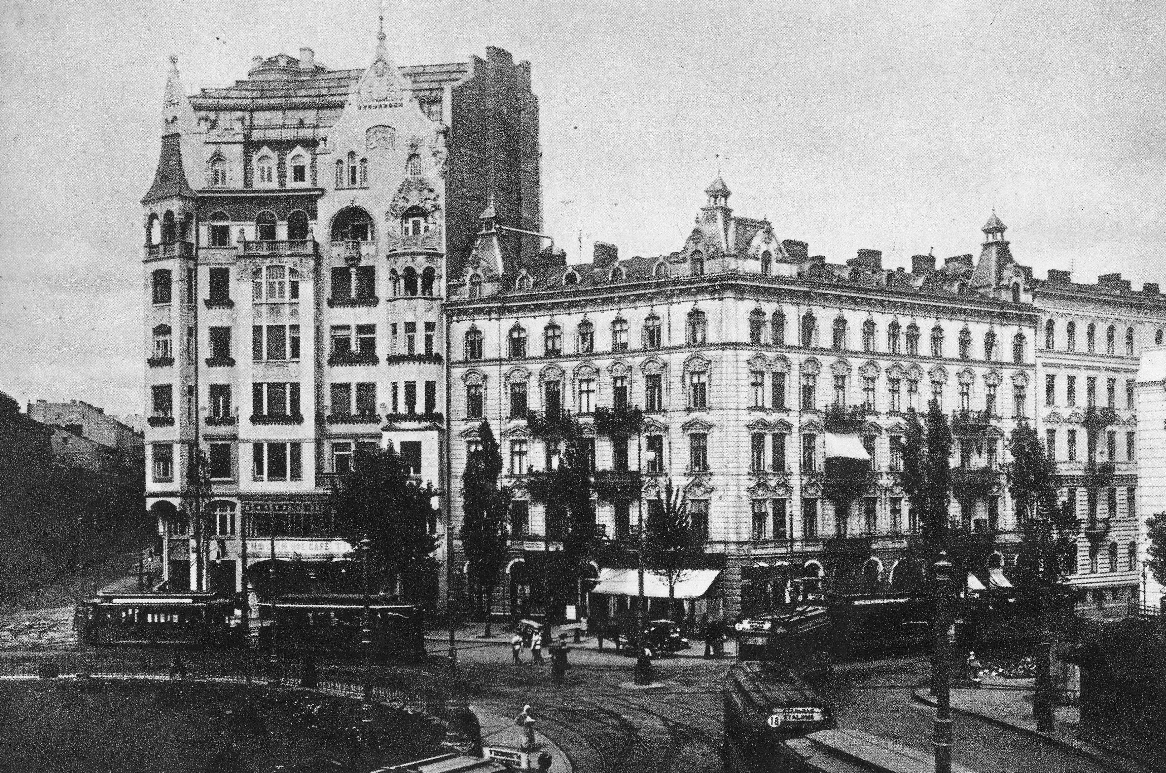 Jasieńczyk_Jabłoński tenement house in Zbawiciel Square in Warsaw